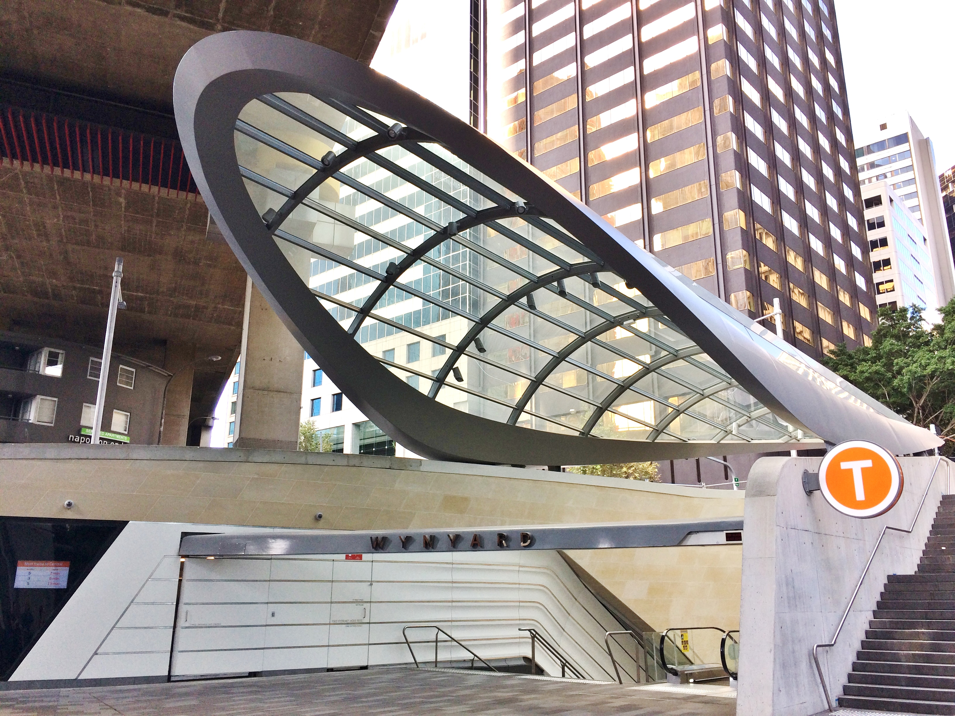 A view of the entrance to Wynyard railway station from the Wynyard Walk in April 2017. Arguably the most visually spectacular of the many entrances to the station, it makes a direct connection between Barangaroo and the station, served by the Sydney Trains T1 North Shore, Northern & Western Line, T2 Airport, Inner West & South Line, and T3 Bankstown Line services. The entrance and the walk were built over a period of four years, from 2012 and 2016. It was part of both the development of the Barangaroo precinct and a complete overhaul and redesign of Wynyard railway station to a cleaner, more modern architectural design. The walk also enables a feasible transport interchange between Sydney Trains and Sydney Ferries, as the Barangaroo ferry wharf is located not too far from this entrance, along a canonical continuation of the Wynyard Walk across Sussex Street.